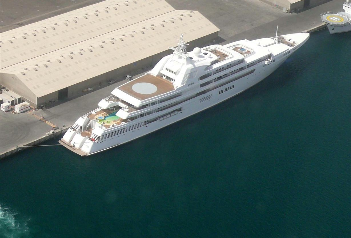 This is a photo of Dubai, a yacht owned by Sheikh Mohammed bin Rashid Al Maktoum, moored in Port Rashid in Dubai, United Arab Emirates on 8 May 2008. It is the world's second longest yacht. This photo was taken from a helicopter ride courtesy of Nakheel.